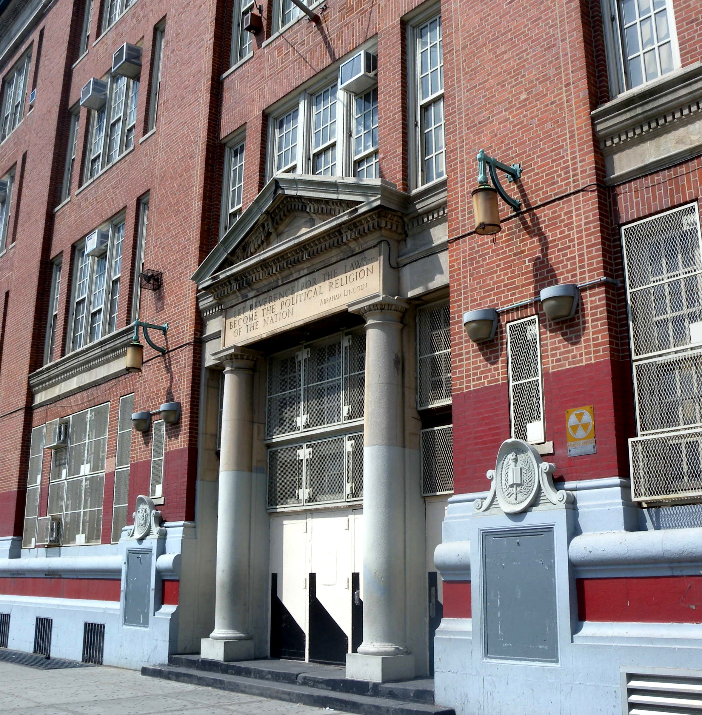 Looking southwest at front door of Jeff HS on a sunny morning.